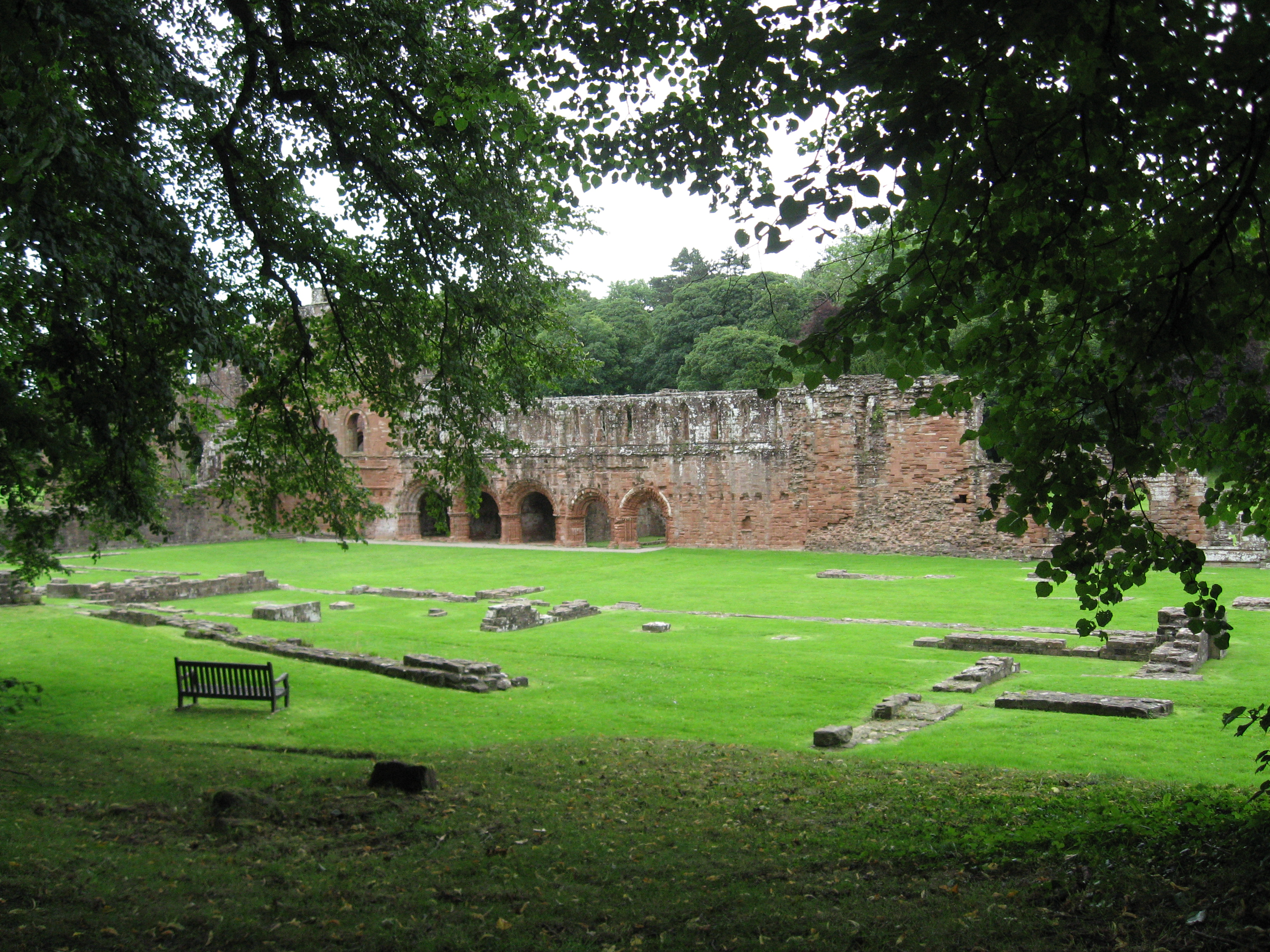 Another view of the Abbey